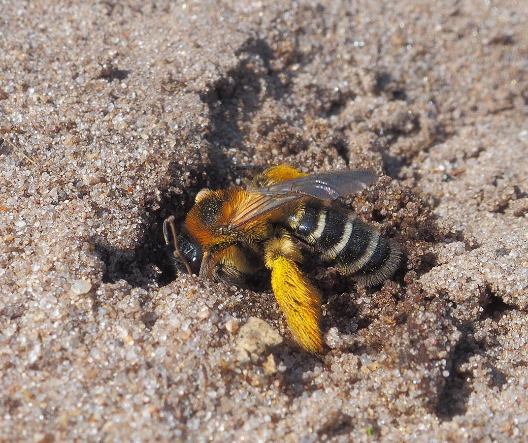 Hairy-legged mining bee (Dasypoda hirtipes) in The Netherlands